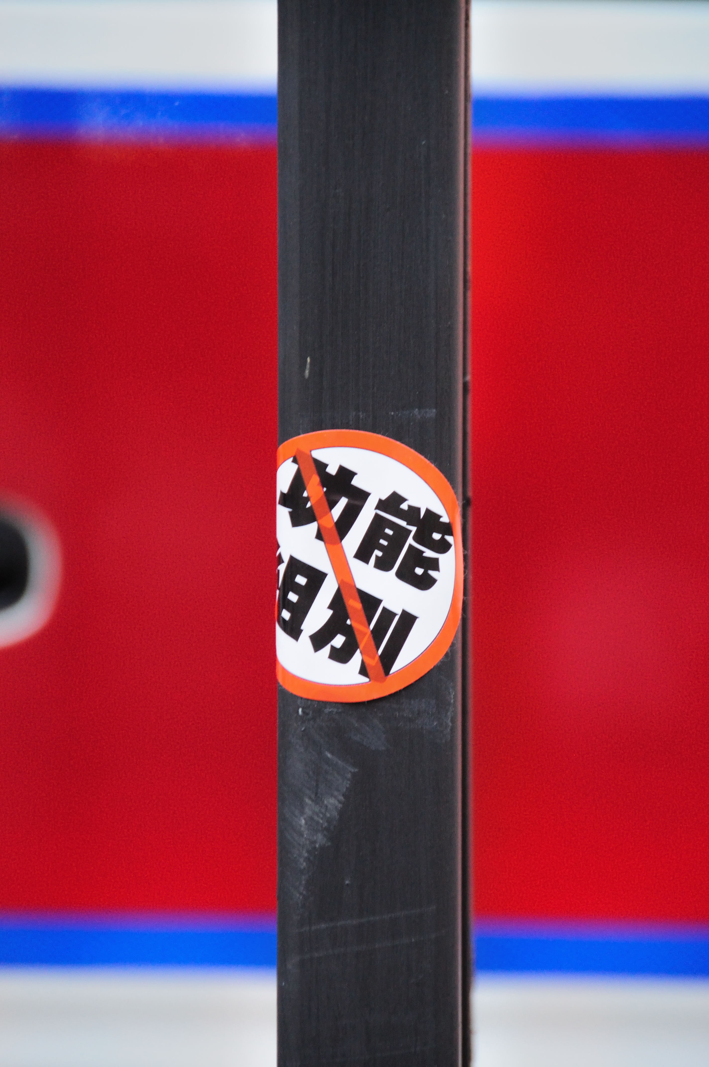 Hong Kong July 1 march 2010